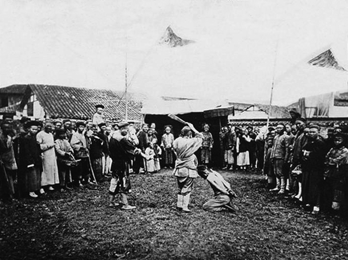 Saunders' famous execution scene